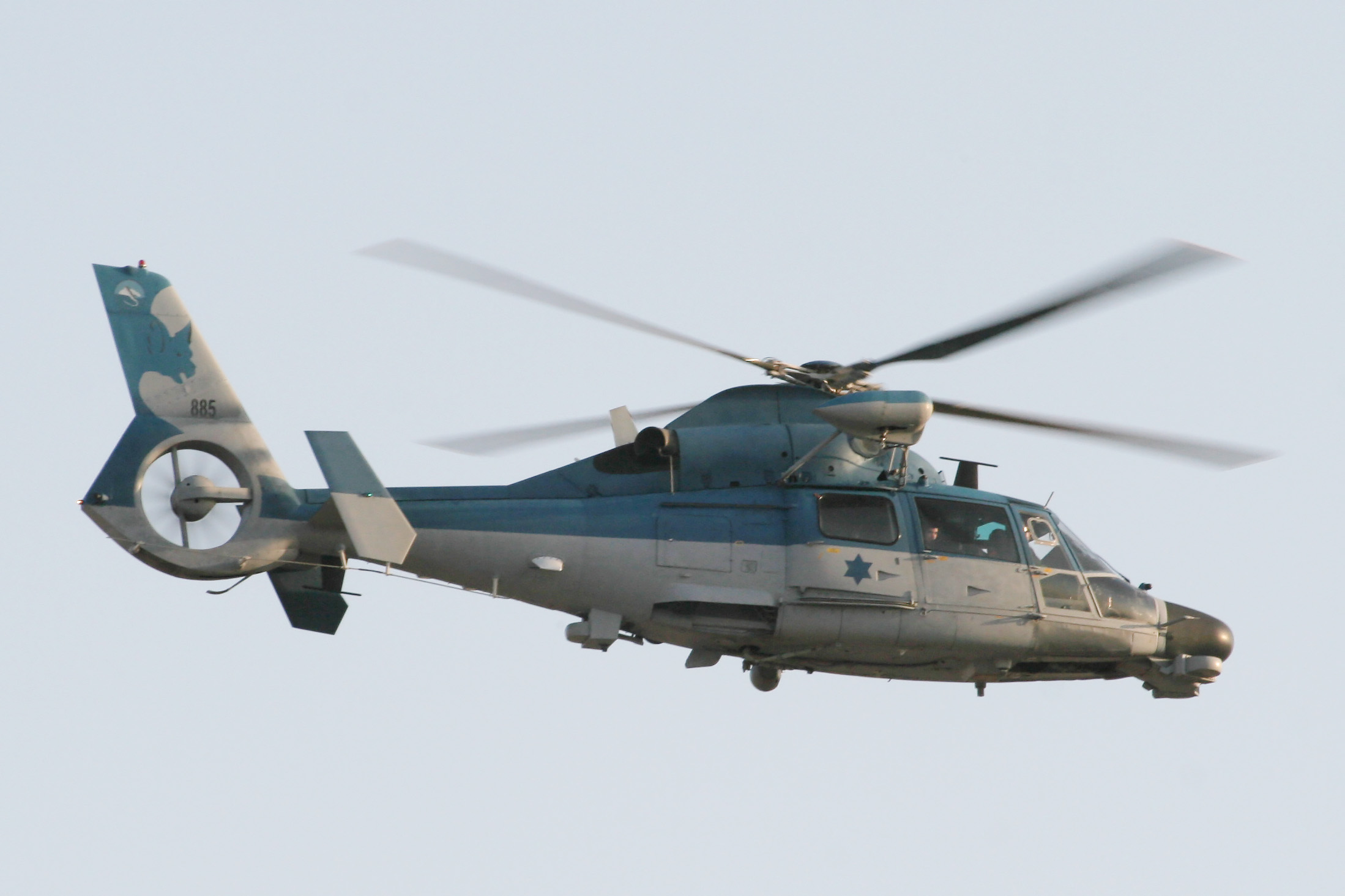 AS-565 Panther, in IAF cadet graduation ceremony, #154